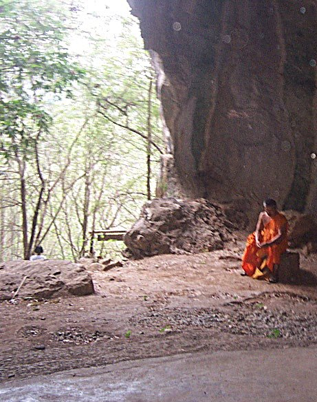 Tham Chan Cave Location: Amphoe Tron, Uttaradit Province, Thailand.